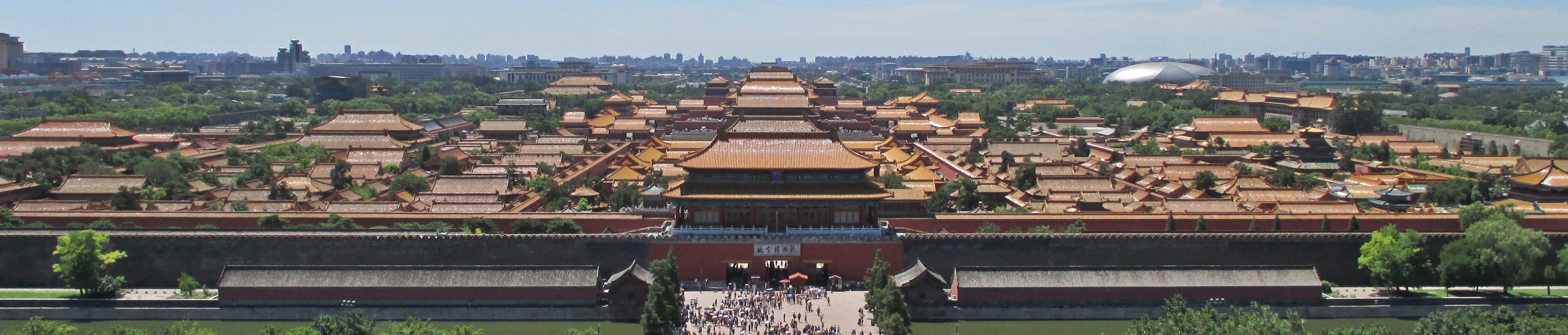 The Forbidden City in Beijing, China, viewed from Jing Shan.